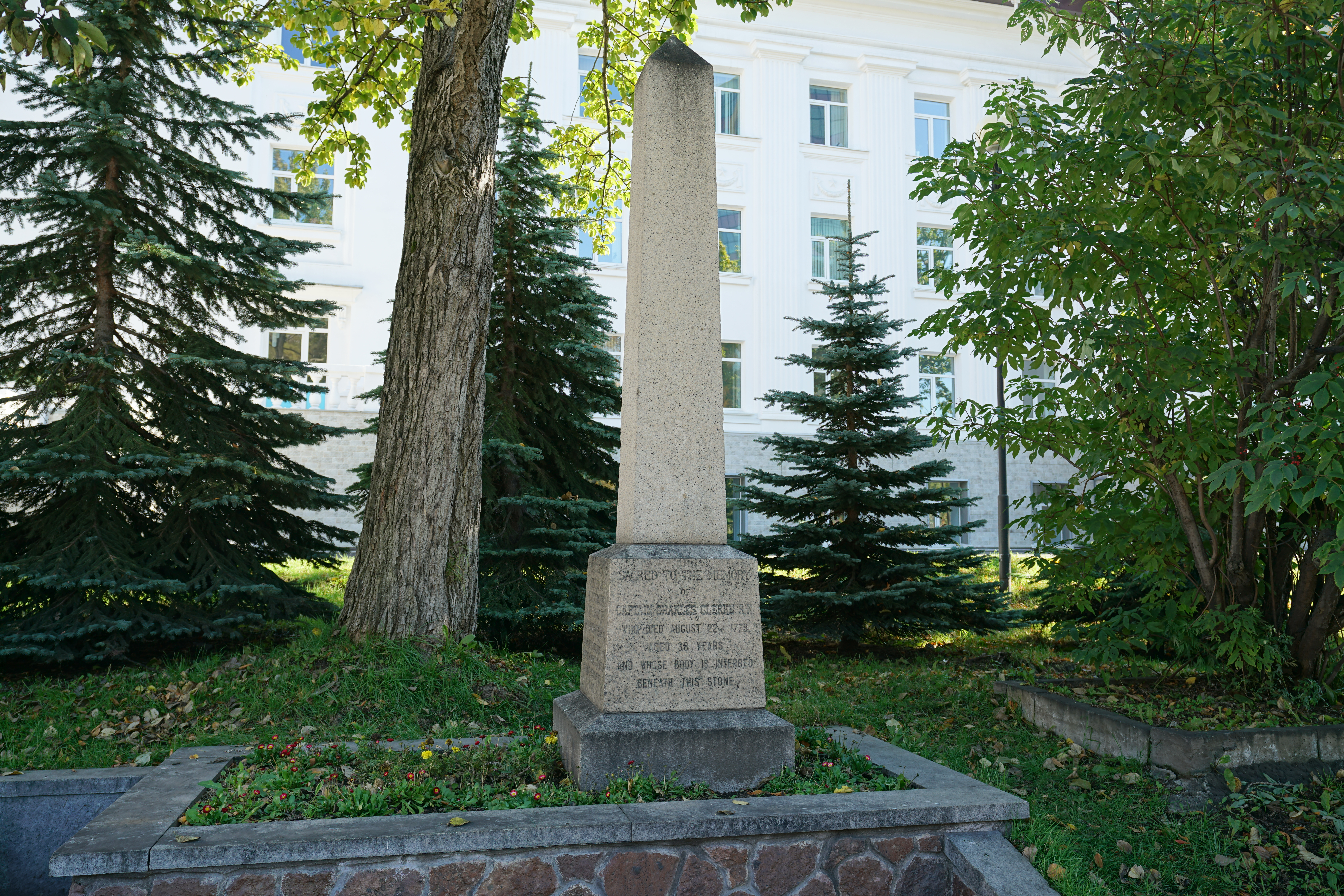 Grave of Captain Charles Clerke RN - Inscription: Sacred to the memory of Captain Charles Clerke RN who died August 22, 1779, aged 38 years and whose body is interred beneath this stone.